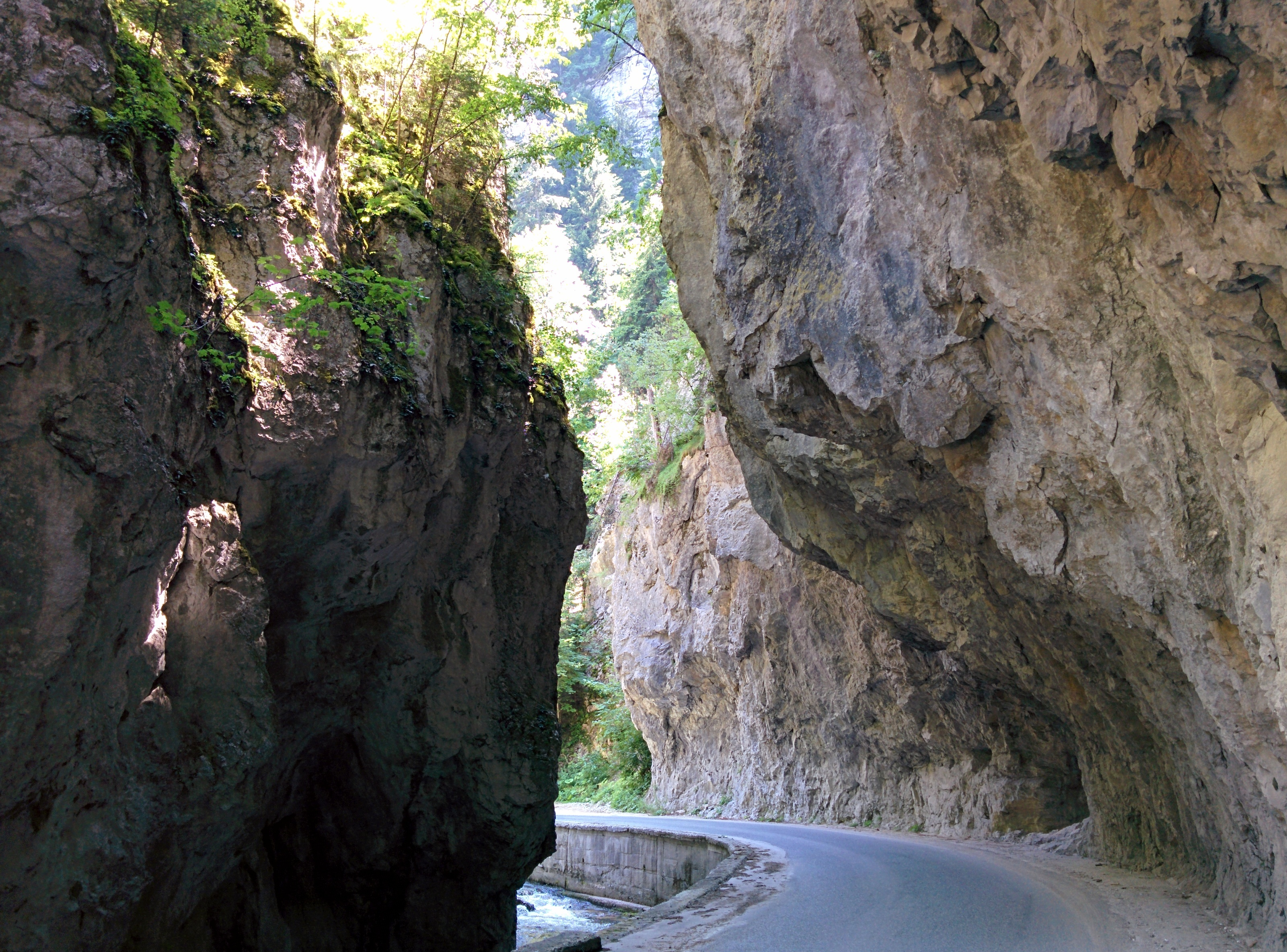 Smolyan Province, Borino Municipality, Buynovsko Gorge, from the village of Buynovo to Teshel dam com/gteycxr